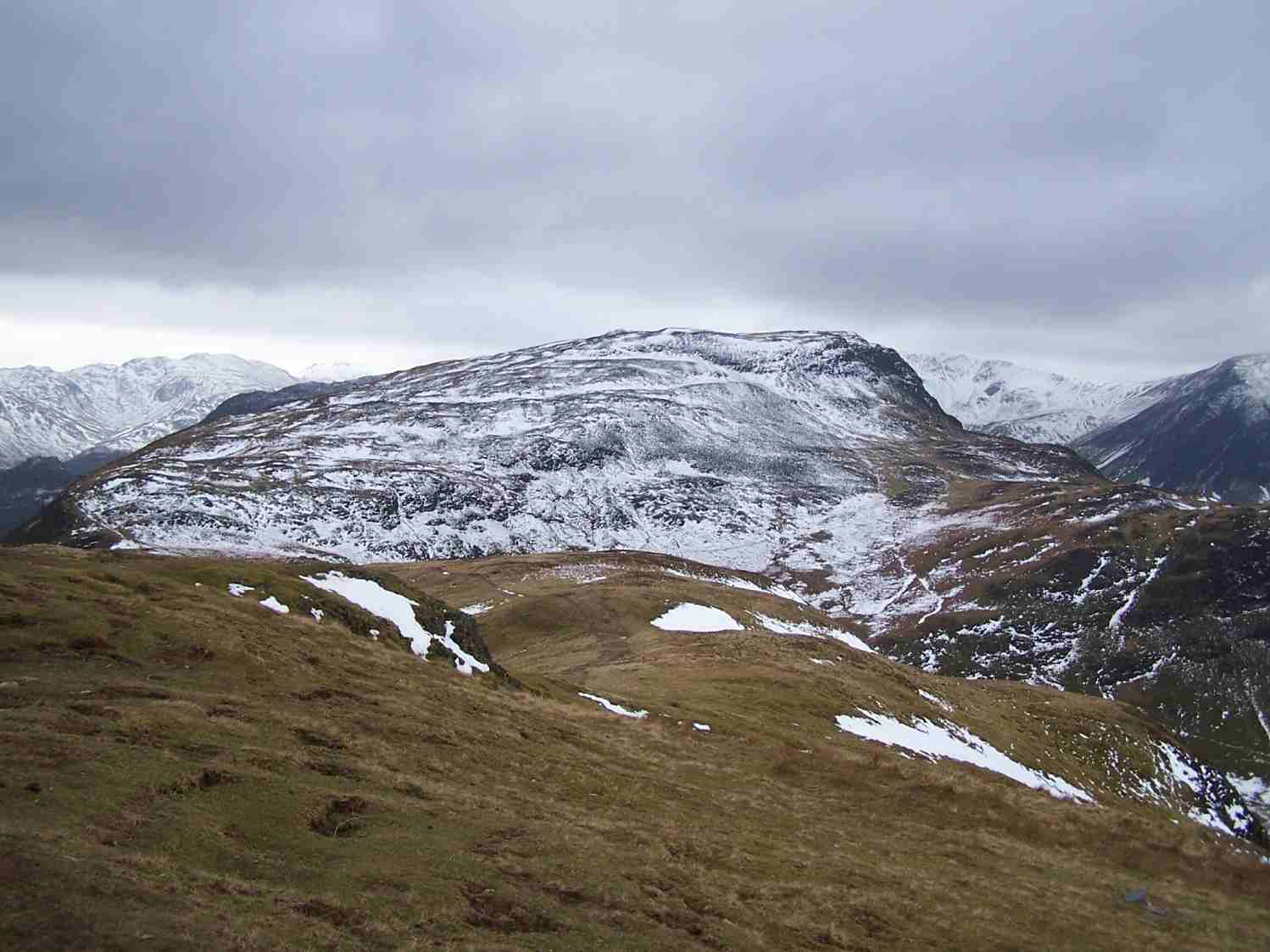 Maiden Moor seen from the summit of Catbells Personal picture taken by Mick Knapton in March 2006